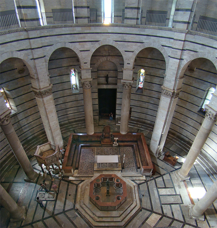 The Baptistery, Pisa, Tuscany, Italy. At the centre, the octogonal font. On the left, the pulpit.